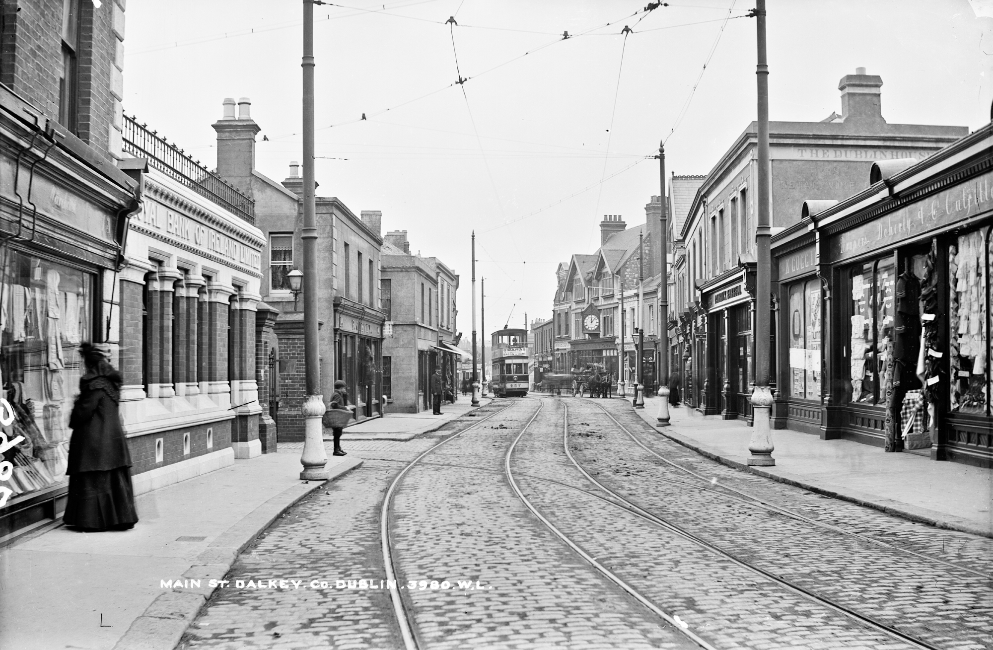 Main Street, Dalkey, Co. Dublin The lad with the basket on the left, looks very like the lad with the basket in the photograph from Gorey :) The leafy suburb of Dalkey beckons and requires your attention. Your comments as always will be as welcome as the lovely weather we are experiencing at the moment. With thanks to today's contributors, including some interesting insight from [/photos/23885771@N03/ RETRO STU] on the tram pictured, we feel confident in refining the date range on this to the first decade of the 20th century (knocking the 5 decade span down to just a 5 year span)..... Photographer: Robert French Collection: Lawrence Photograph Collection Date: Catalogue range c.1865-1914. Likely c. 1905-1911 NLI Ref: L_CAB_03980 You can also view this image, and many thousands of others, on the NLI’s catalogue at